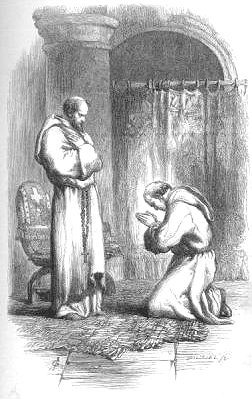 Illustration from William Harrison Ainsworth's novel The Lancashire Witches, by John Gilbert (1817-1897). Published in 1854.